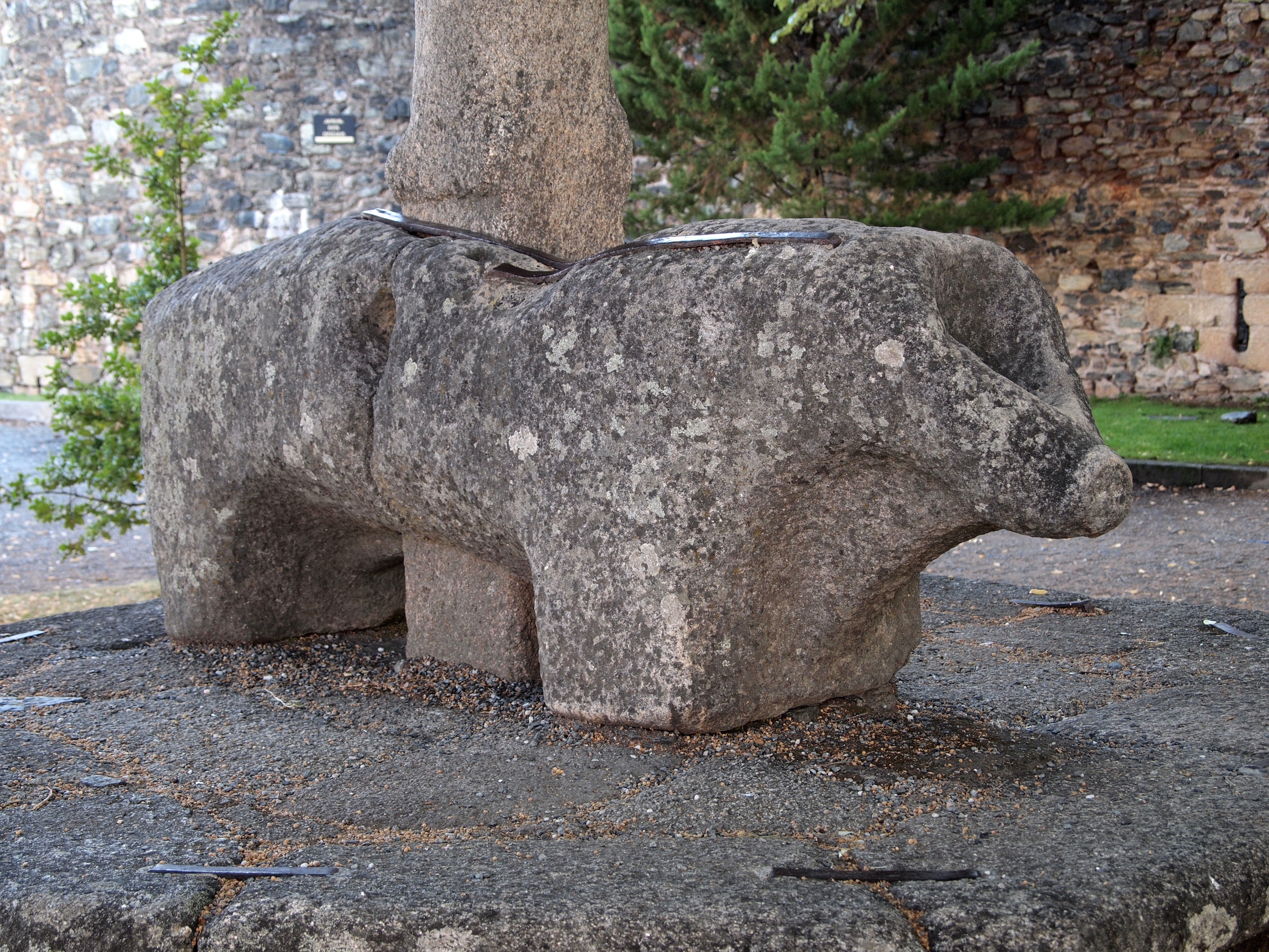 The base of the Pillory of Braganza. Braganza, Portugal.